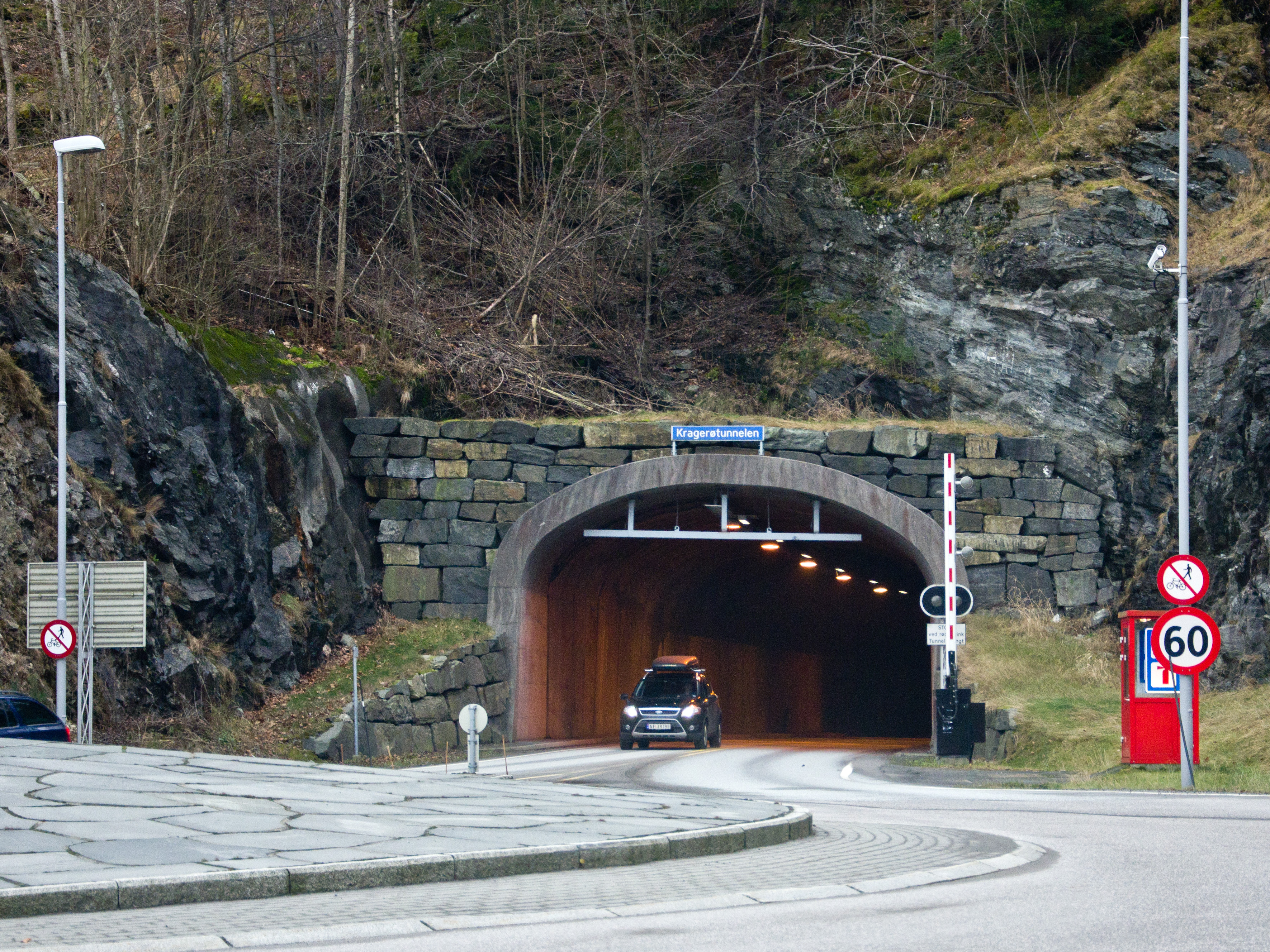 Kragerøtunnelen, a road tunnel on county road 38, in Kragerø, Telemark, Norway.